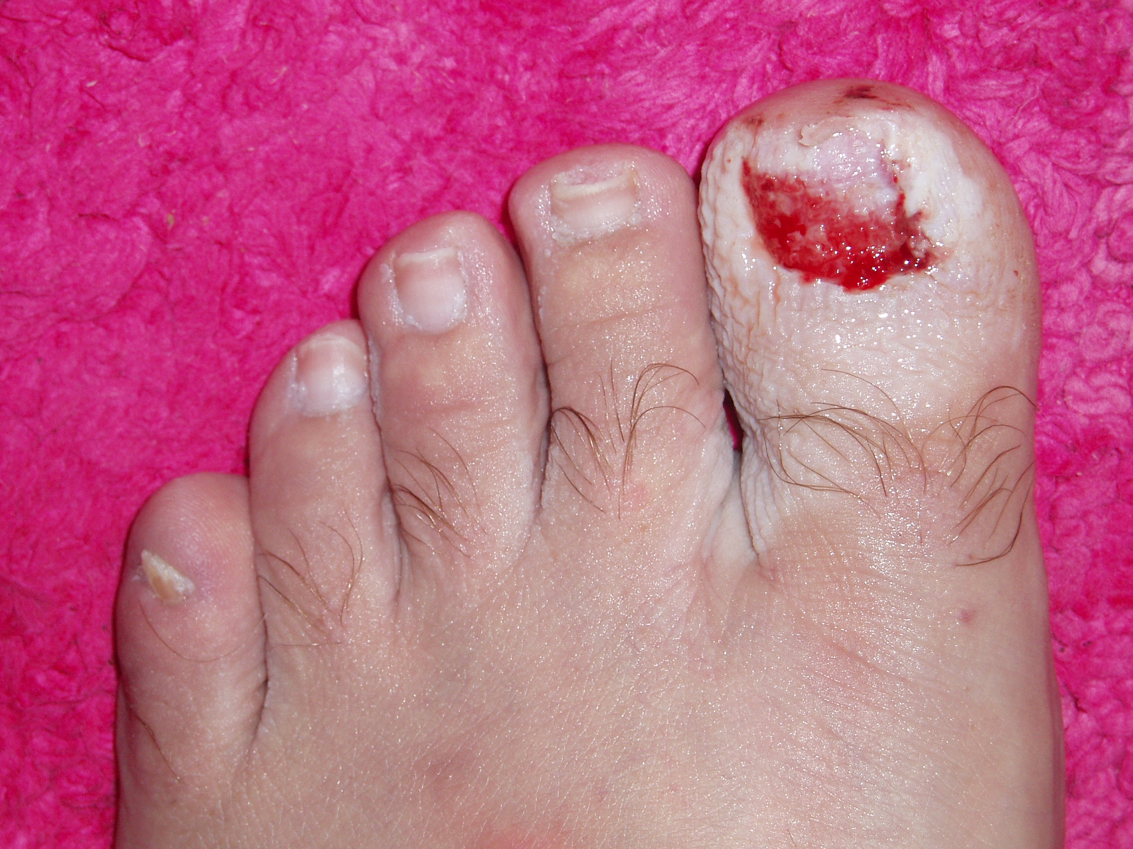 Big toe after the nail removed